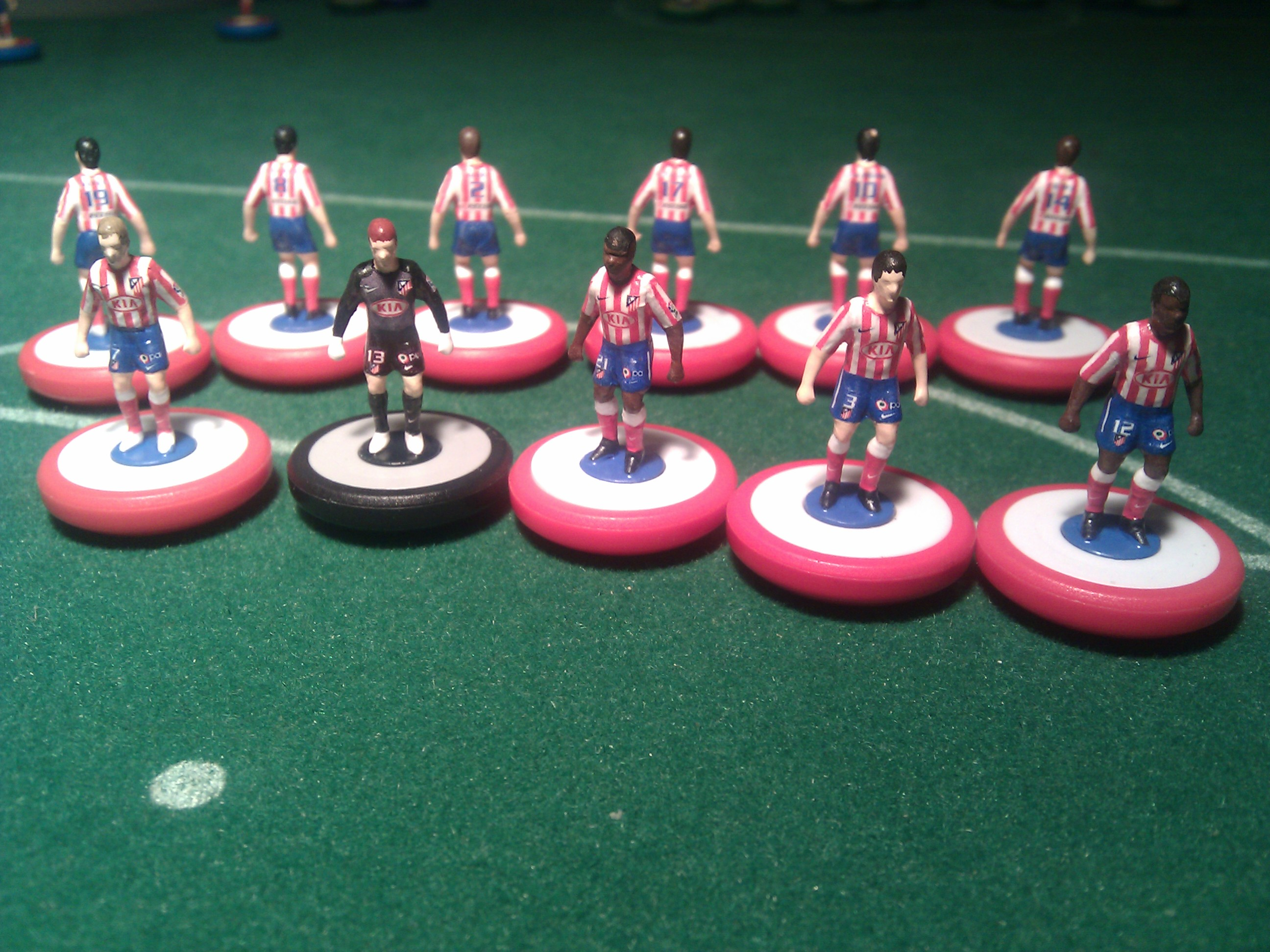 Atlético de Madrid Subbuteo Team